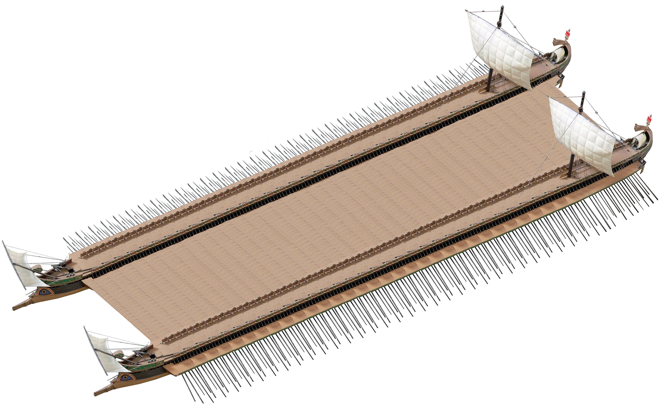 Basic speculative illustration of a catamaran Tessarakonteres. This only has two rams: seven rams would require the hulls to be closer, or a heavily-braced cross beam.